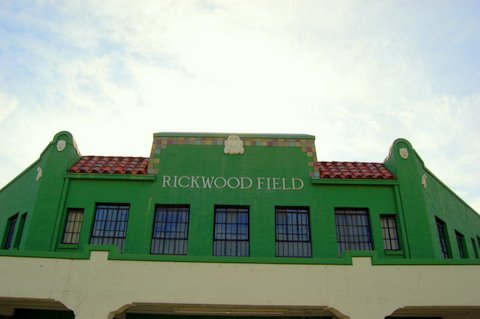 USA's oldest surviving baseball park here in Birmingham, Alabama.